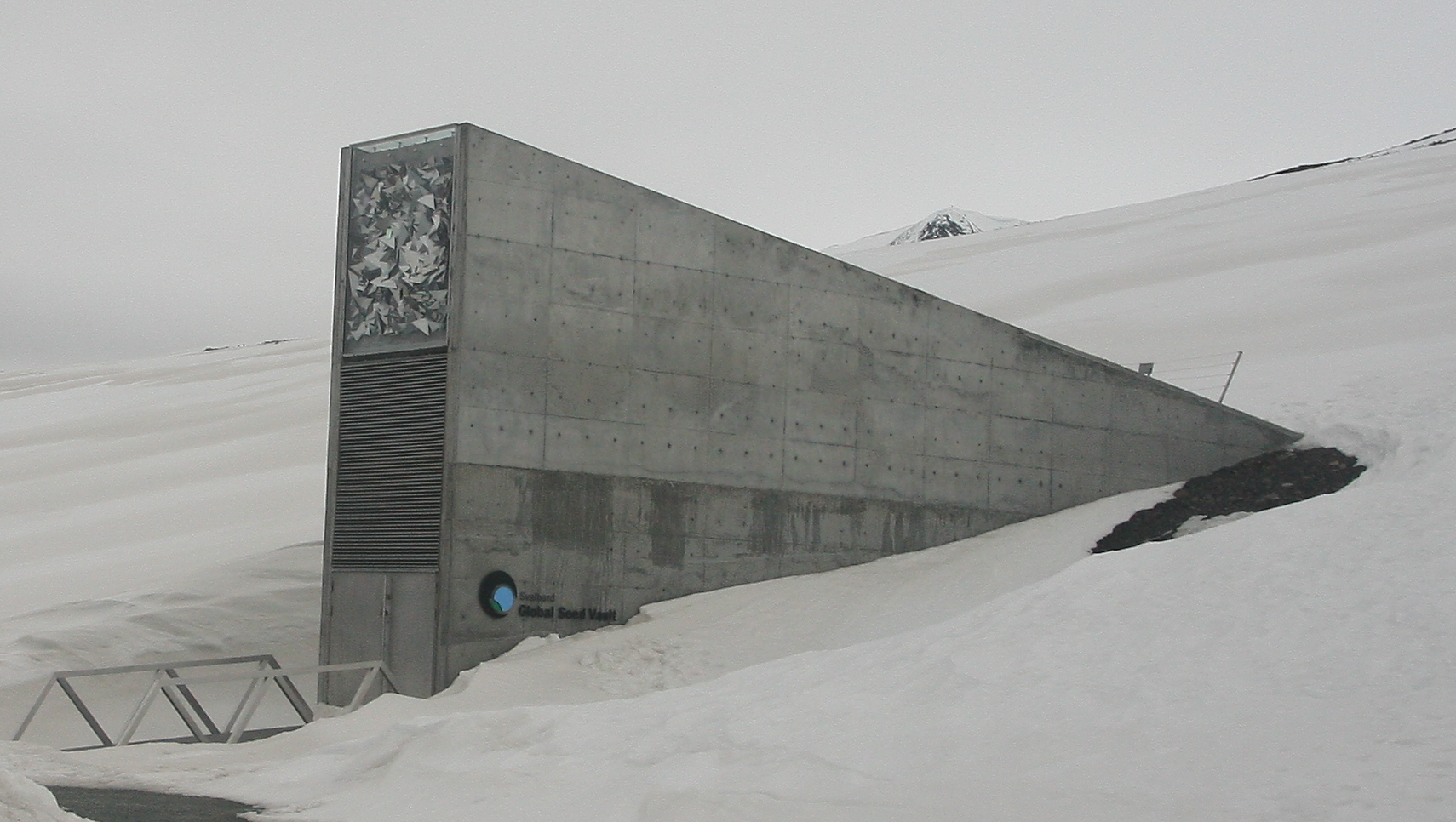 The Svalbard Global Seed Vault